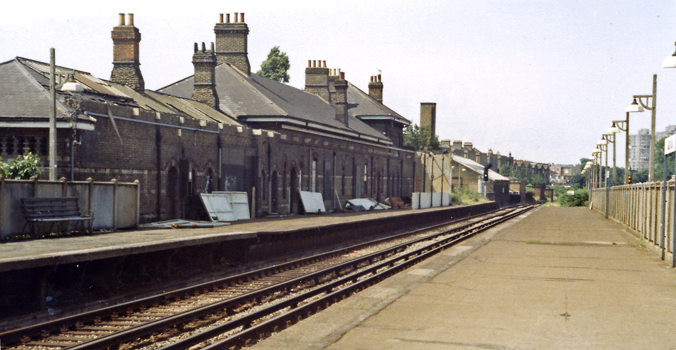 Clapham (later High Street) station, 1984. View NW, towards Victoria: ex-LB&SC South London line from London Bridge via Denmark Hill; also, passing on the right is the ex-LC&DR Victoria - Chatham - Kent Coast main line. It was to be named 'Clapham High Street' from 15/5/89.